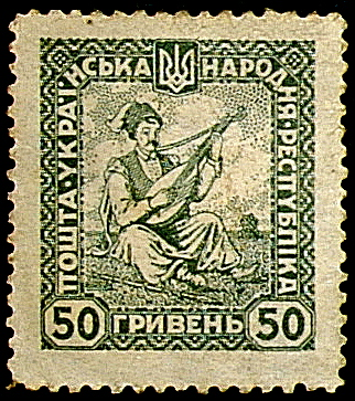 UNR postage stamp